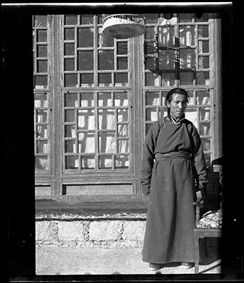 Gyalo Dhondup (b.1928), one of the Dalai Lama's elder brothers, standing in front of a large window of the Dalai Lama's family house, Yabshi Takster, in Lhasa. There is a chair beside him on the right. He is wearing a woollen robe and felt boots. The bottom part of a bird cage can be seen at the top of the image.